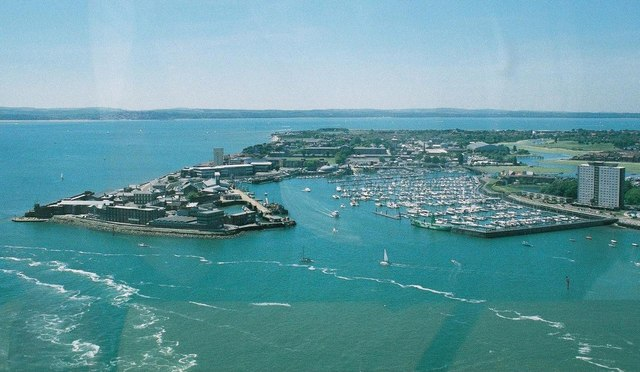 Gosport: Fort Blockhouse and the marina